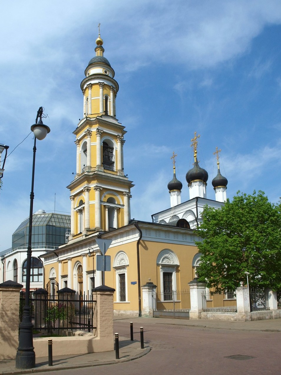 Church of St. Nicholas in Tolmachi, Moscow (stands on SW corner of Tretyakov Gallery block).